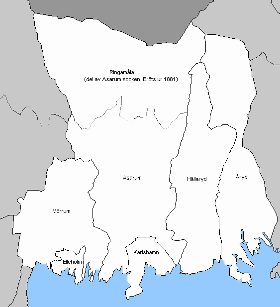 Old municipalities in Karlshamn